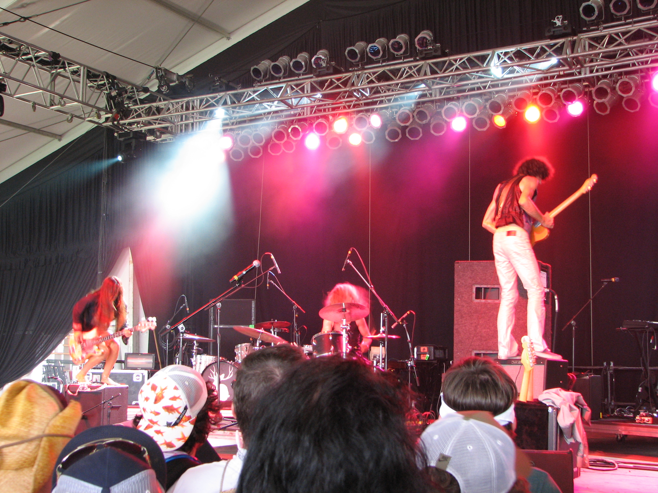 The Entrance Band performing live at Bonnaroo 2010